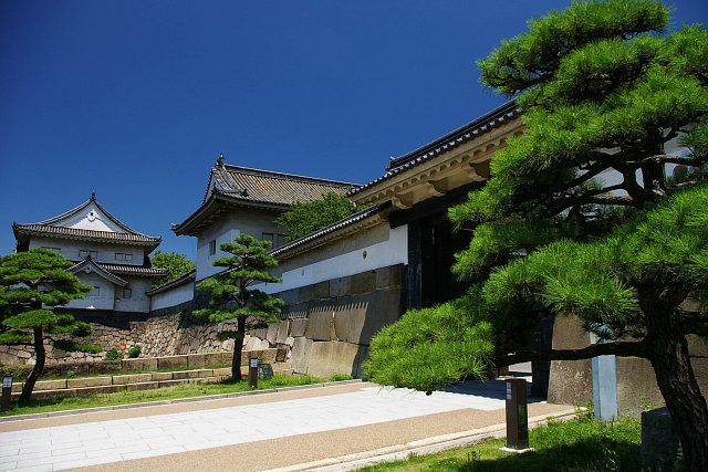 Ōtemon and Sengan Yagura, Osaka Castle, Osaka City, Japan